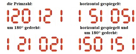 Dihedral prime - Example